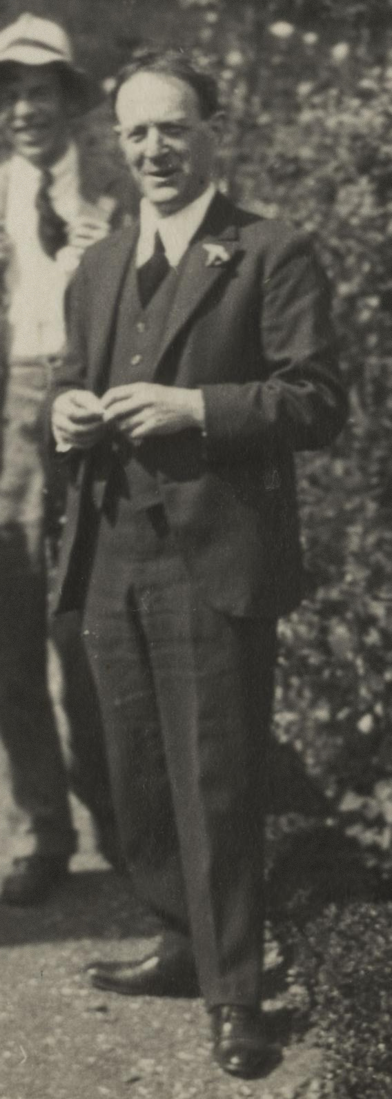 Cropped and background blurred from Elfrida de la Mare (née Ingpen); Gilbert Spencer; Walter de la Mare, by Lady Ottoline Morrell (died 1938).